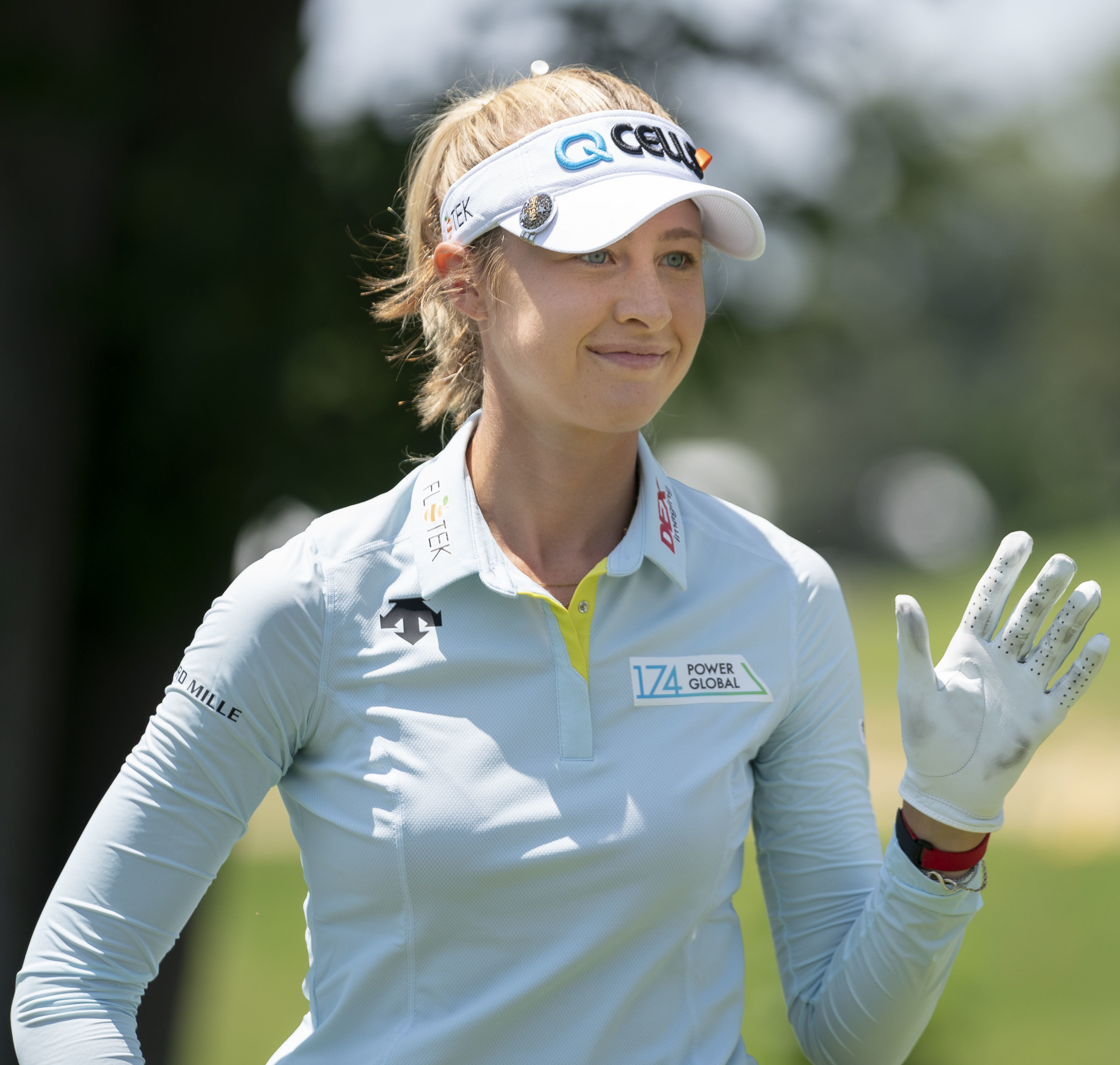 Pure Silk Championship 2019